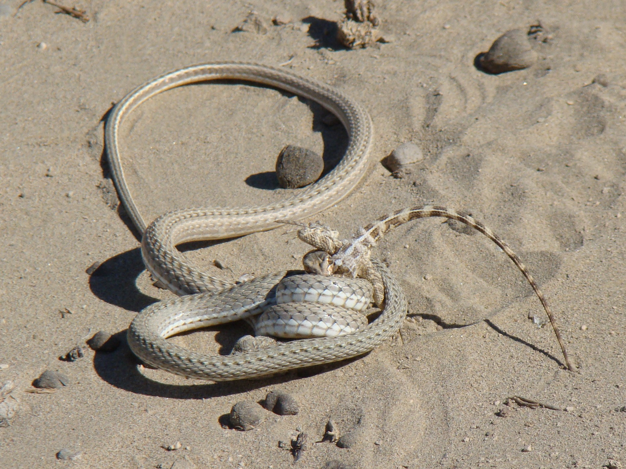 Steppe Ribbon Racer (Psammophis lineolatus) catch young Trapelus sanguinolentus. Baikonur, Kazakhstan.